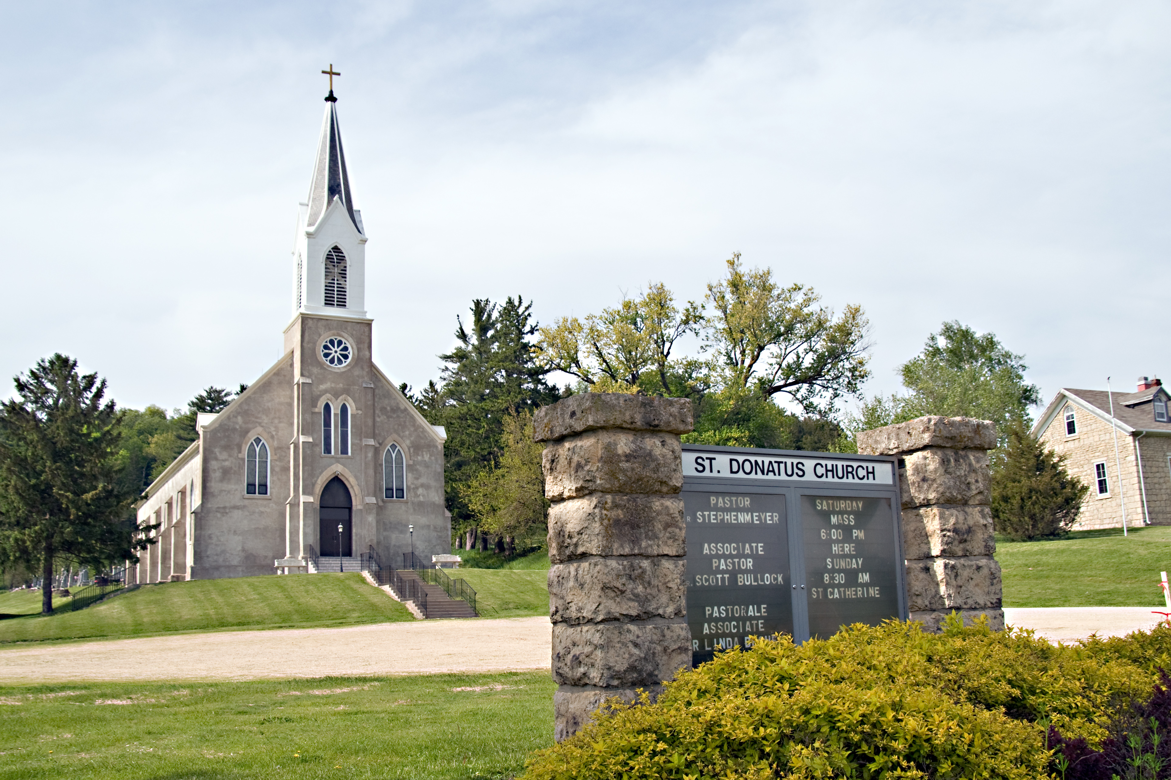 Saint Donatus Catholic Church is a parish of the Roman Catholic Church that is located in the Jackson County, Iowa community of Saint Donatus, Iowa.